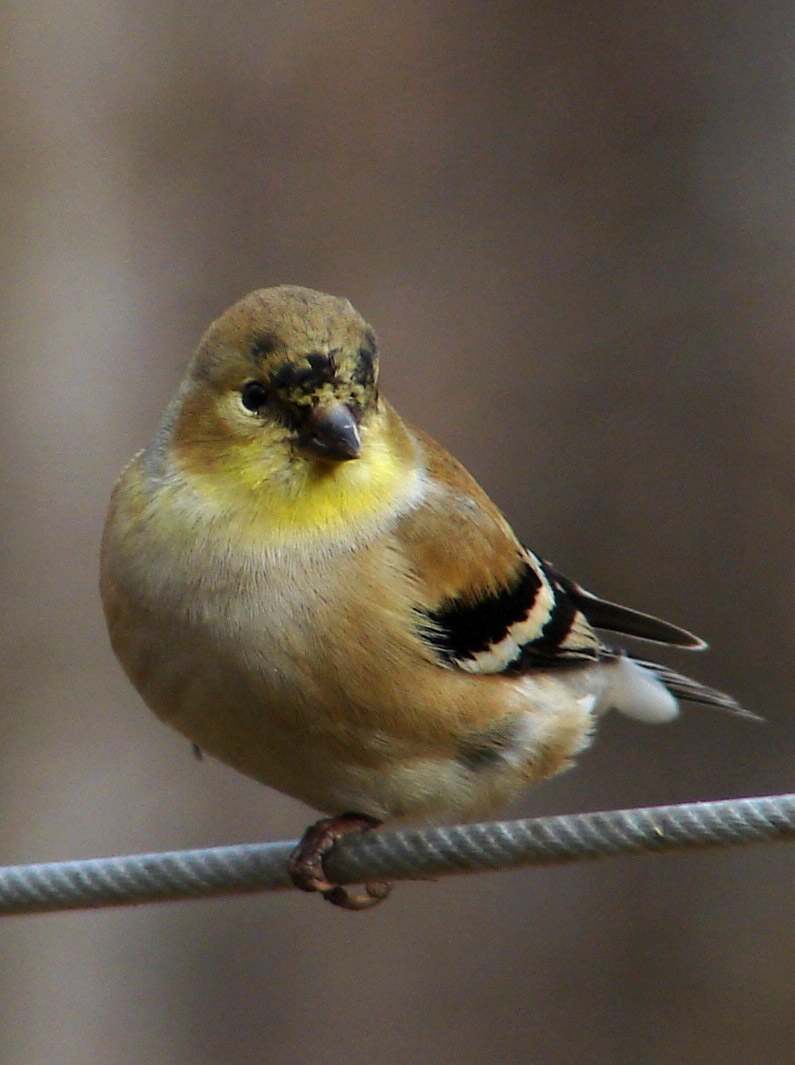 Female American Goldfinch in moulting plumage. (Photo by Craig Houghton)